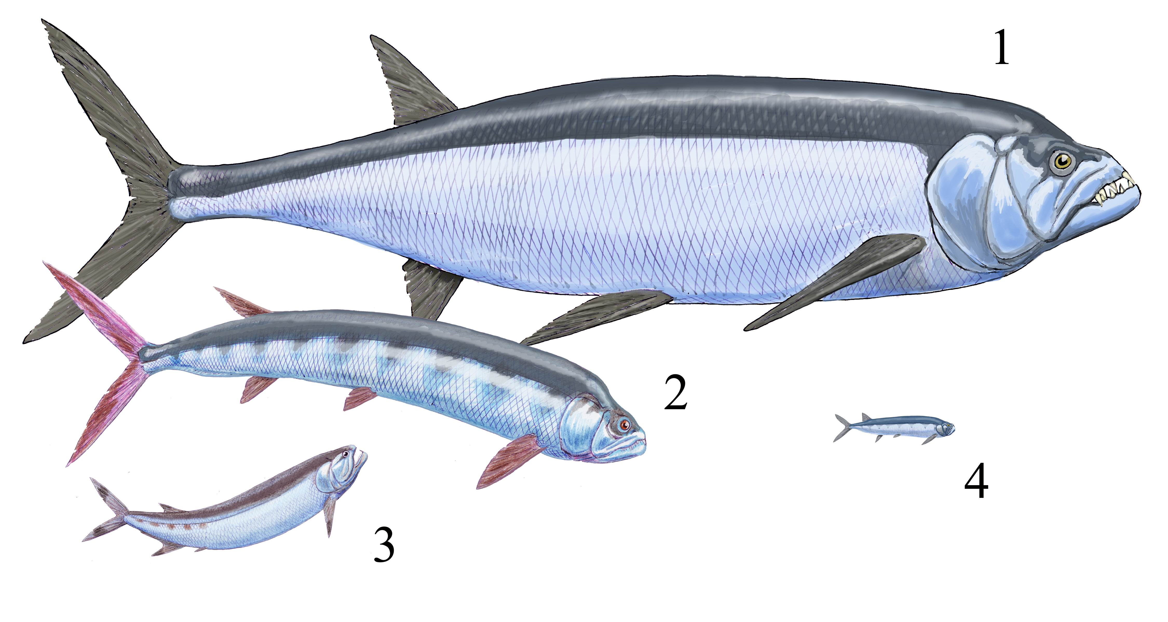 Some Ichthyodectiforms: 1 - Xiphactinus audax; 2 - Ichthyodectes ctenodon; 3 - Cladocyclus gardneri; 4 — Chirocentrites coronini.